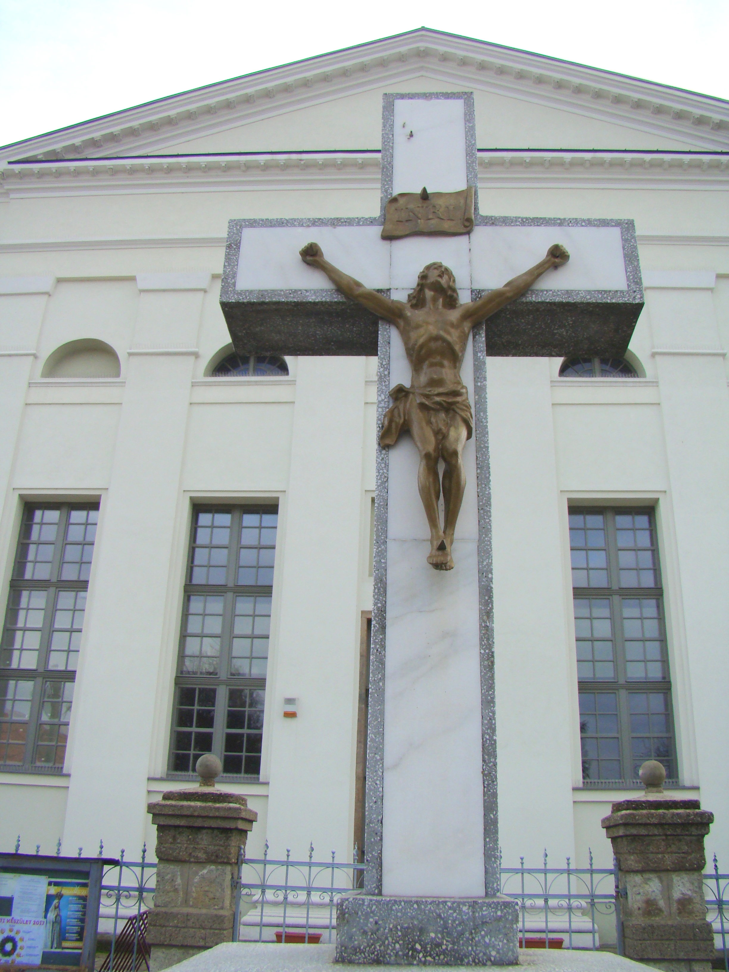 Roman Catholic church in Palota, Bihor county, Romania